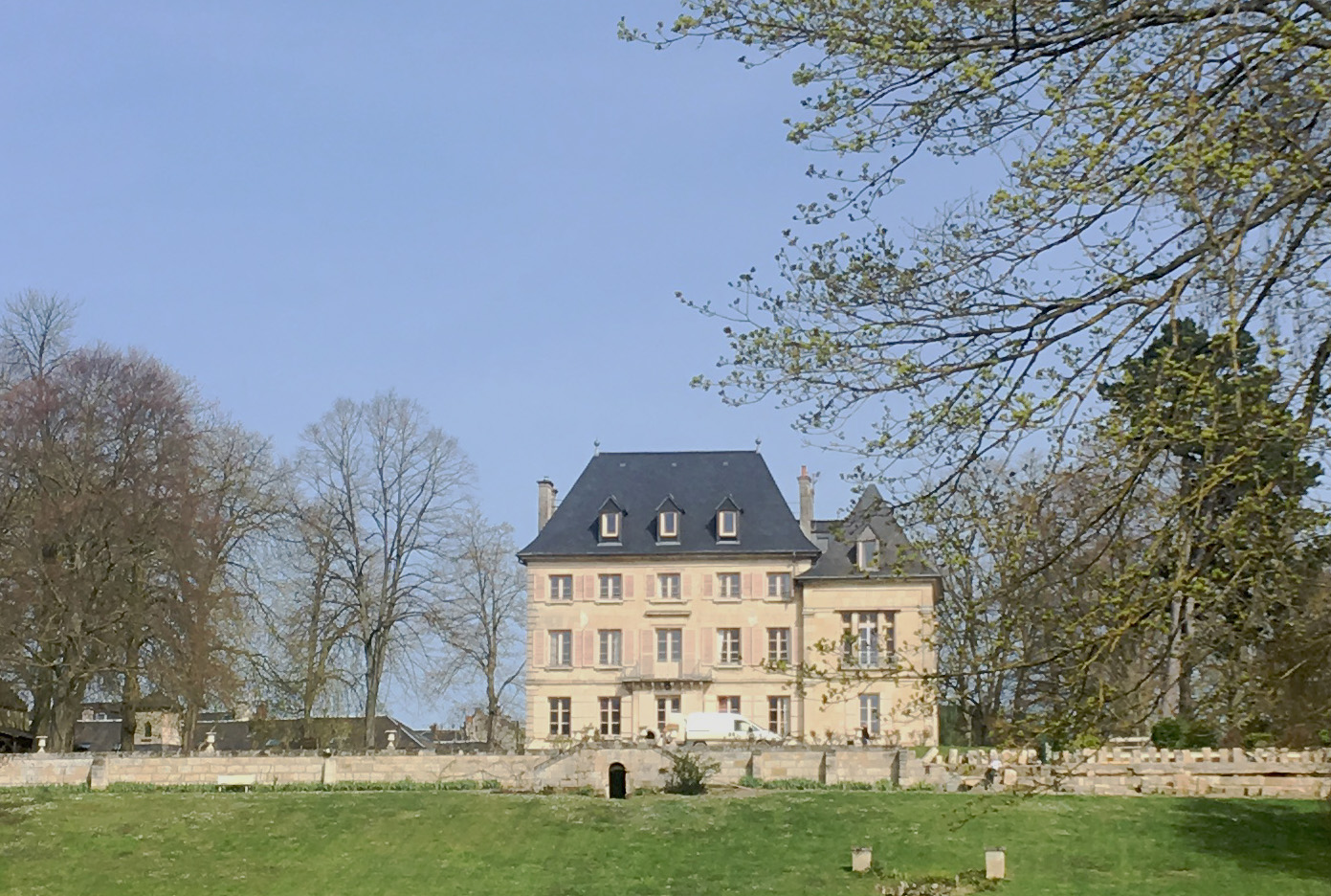 Château de Gaëte ou Domaine du duc de Gaëte et de l'Empire.